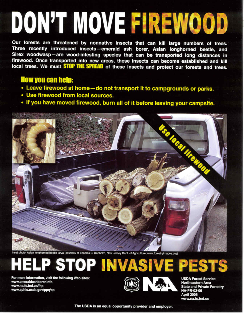 Don't move firewood poster